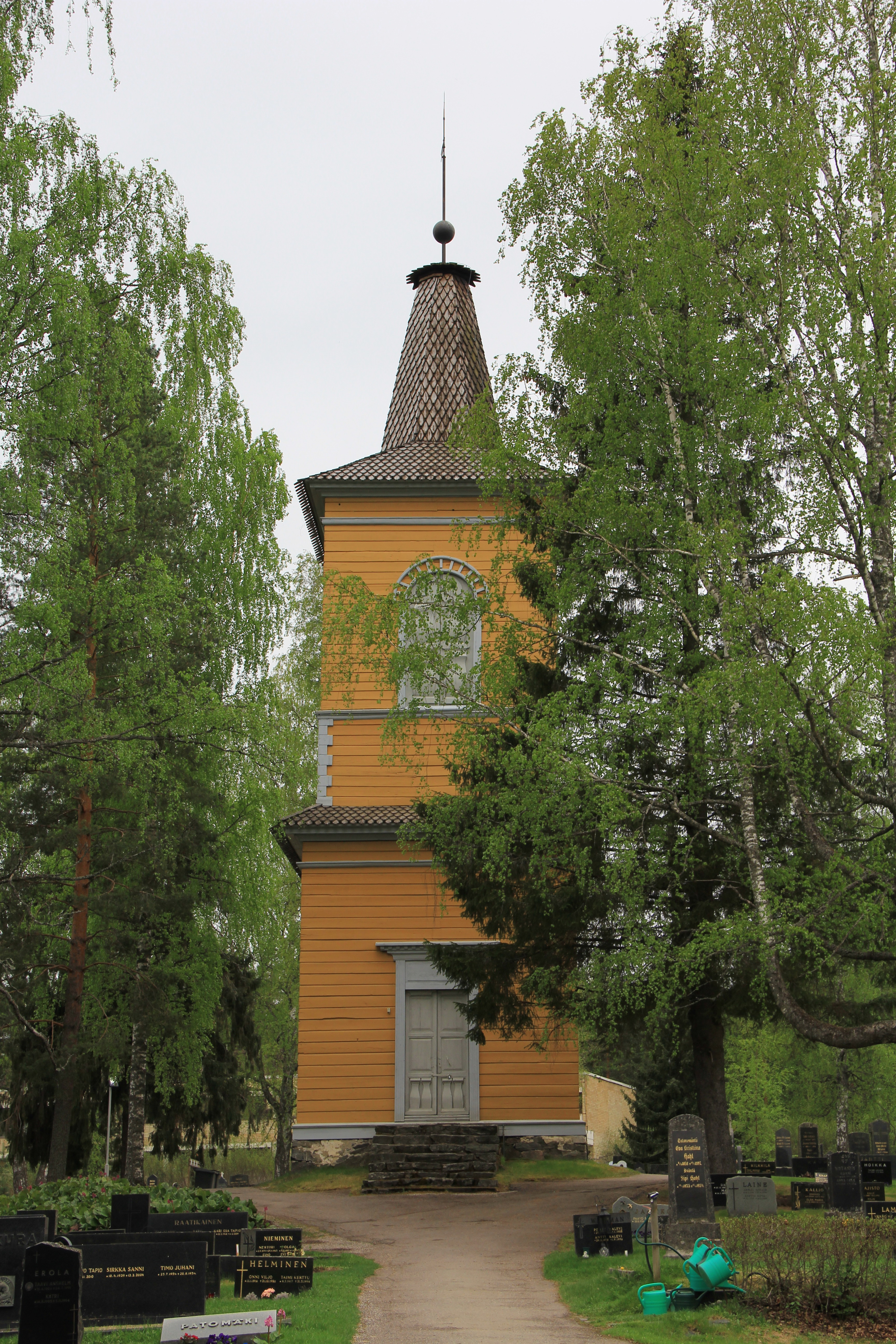 Heinola Rural Parish church bell tower, Heinola, Finland. It was completed in 1834. It is designed by german architect Carl Ludvig Engel. Photo taken from the main entrance of the church.